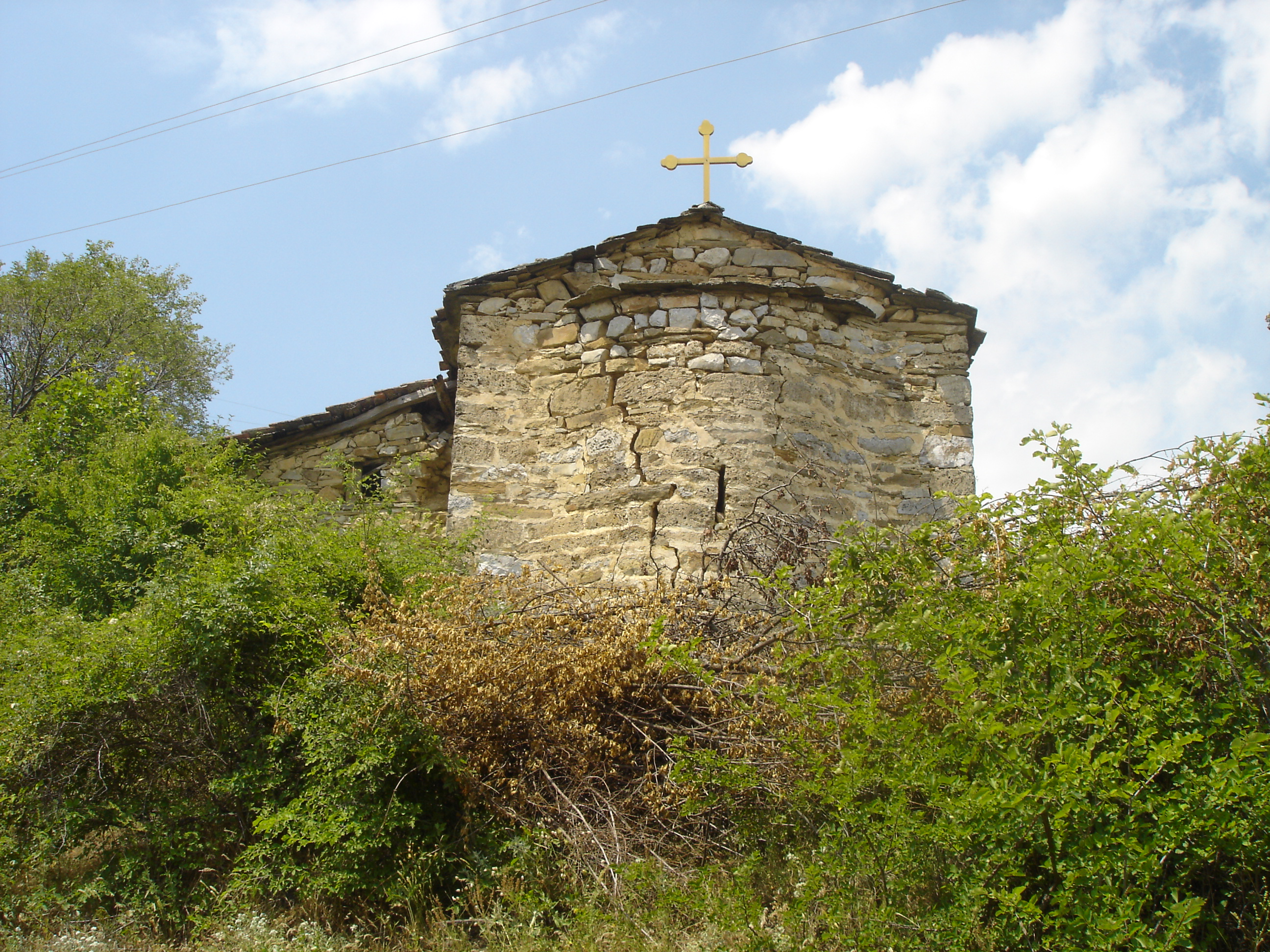 Medieval church St. George in Gradovci, Macedonia